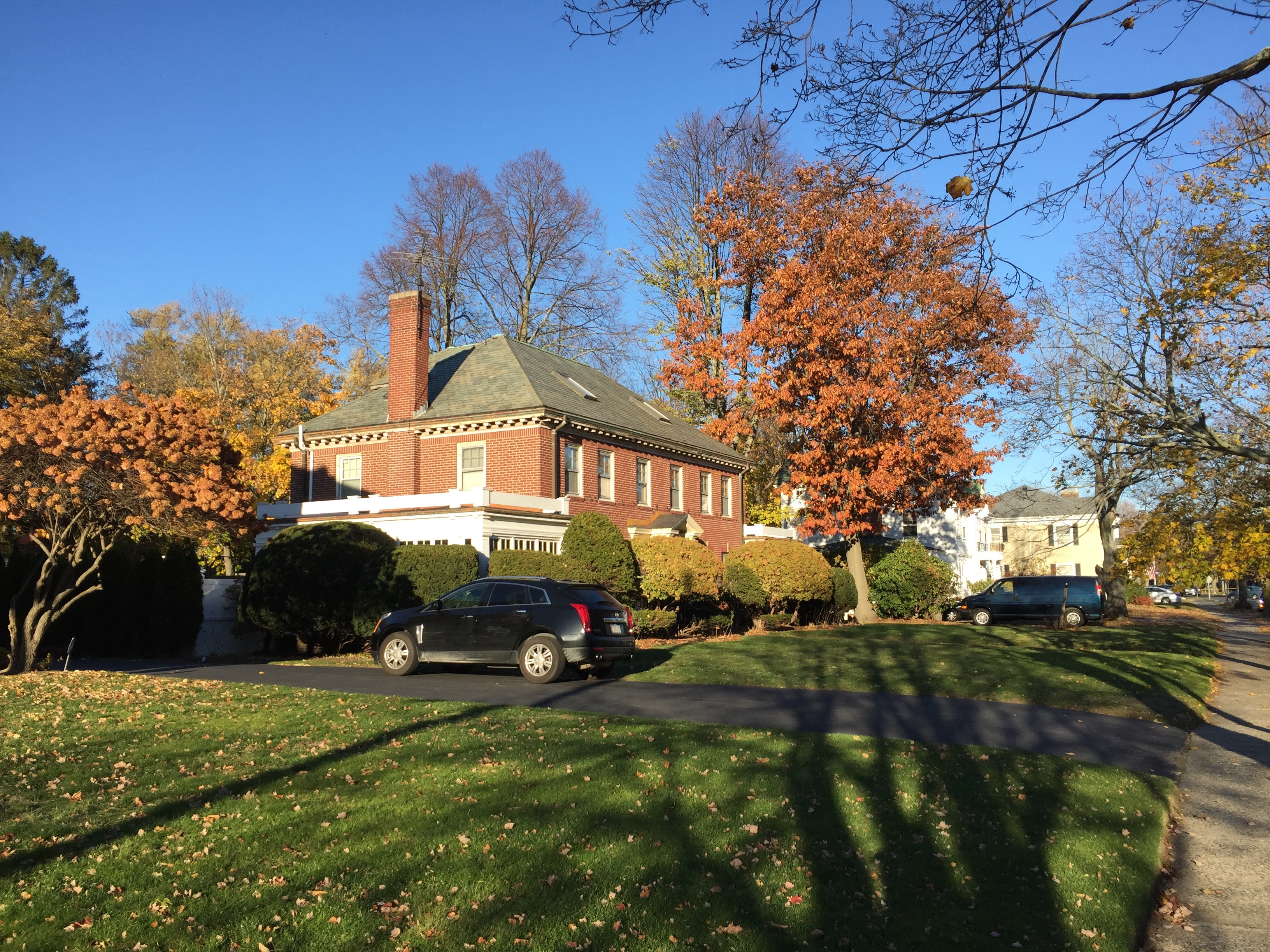 Northerly view of Ocean Avenue, Diamond Historic District, Lynn, MA